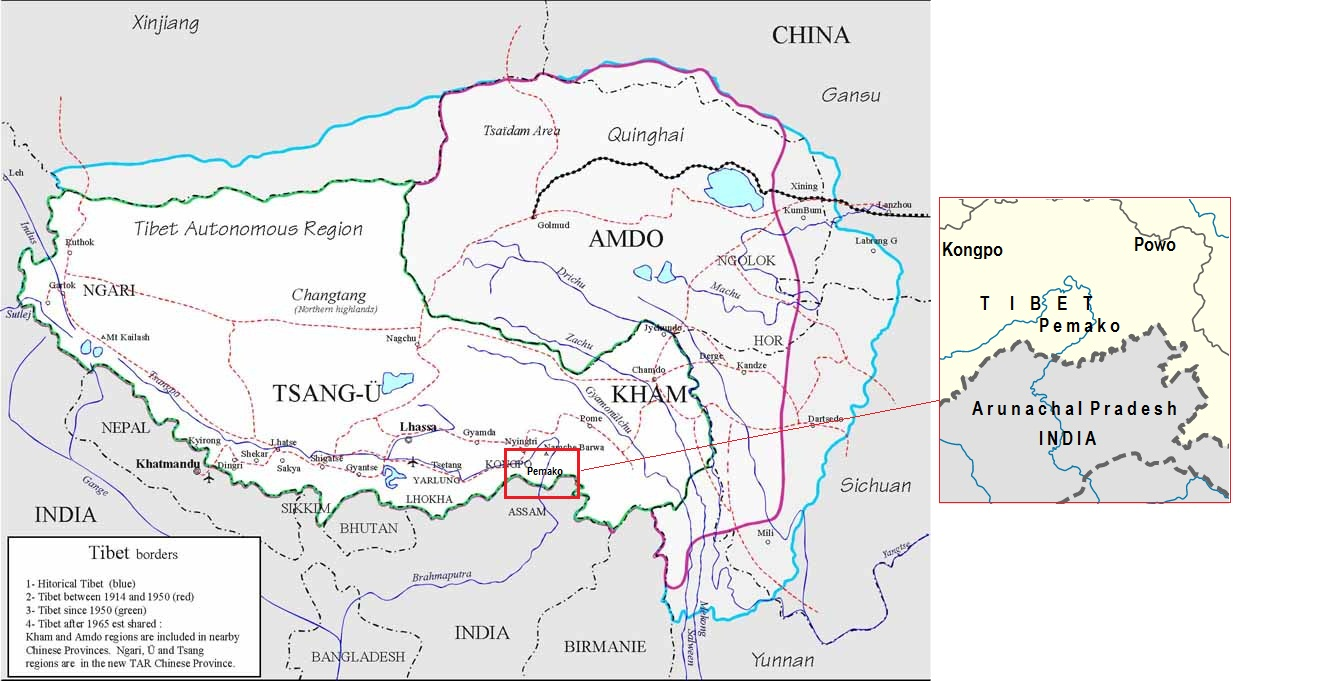 Pemako or pemakod is located in the south east Tibet near Indian Border, pemako is renowned for its beauty and sacredness